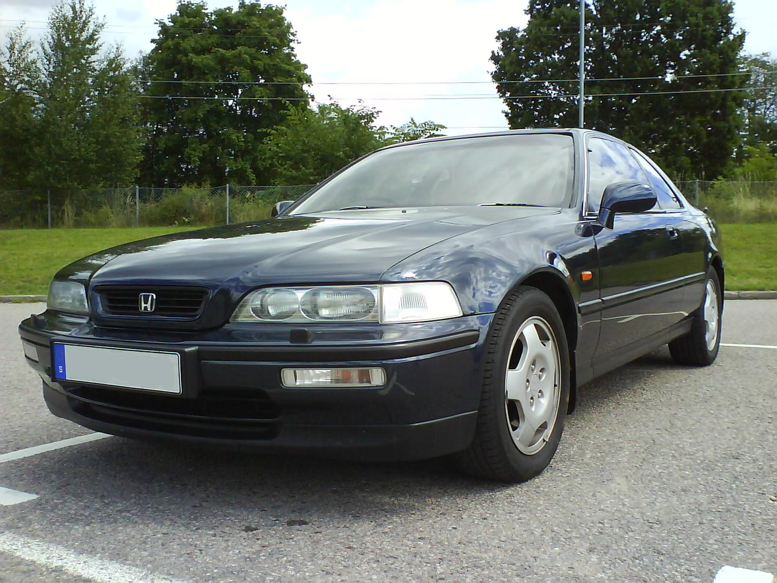 Honda Legend Coupe 95